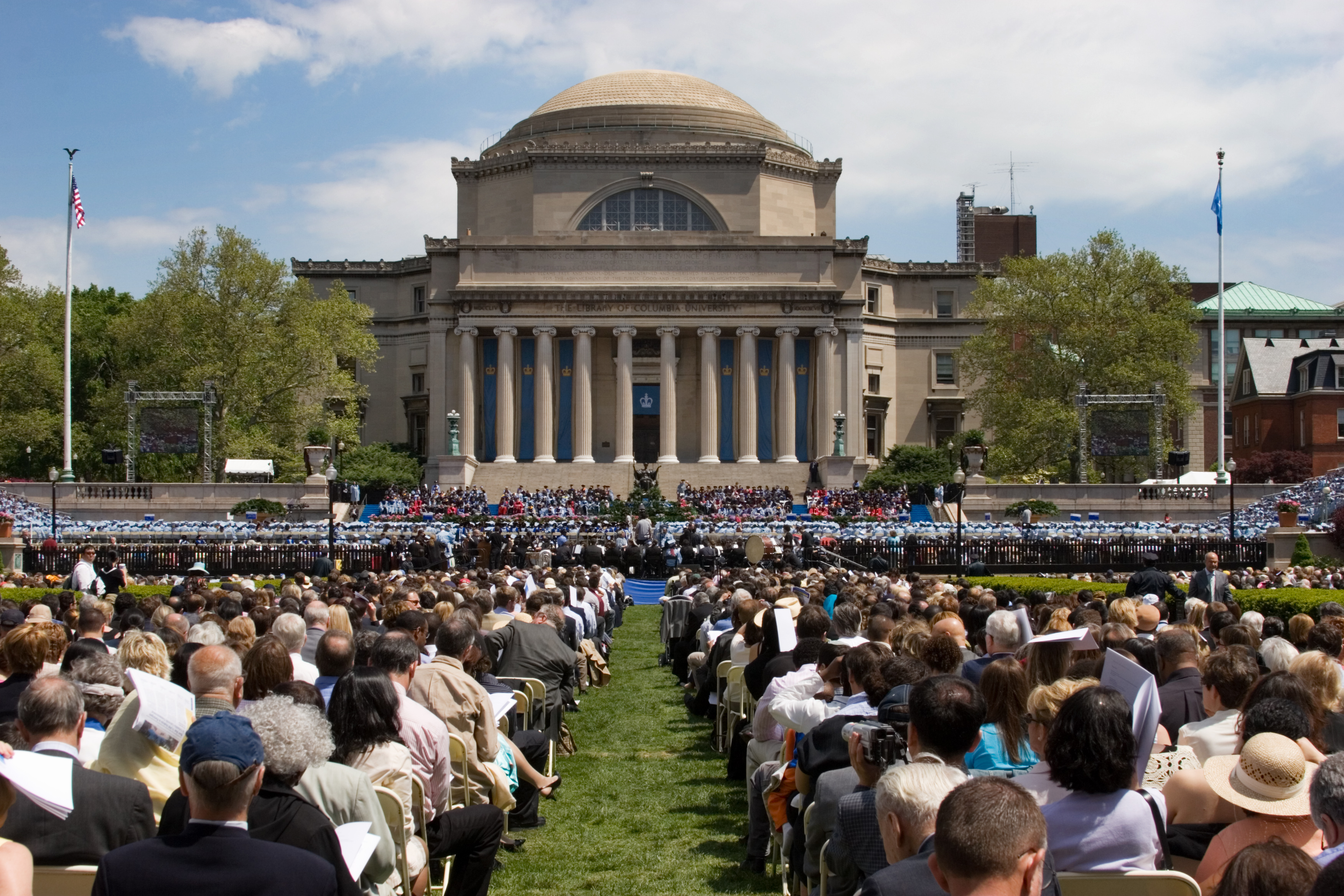 Columbia University graduation day. New York City 2005